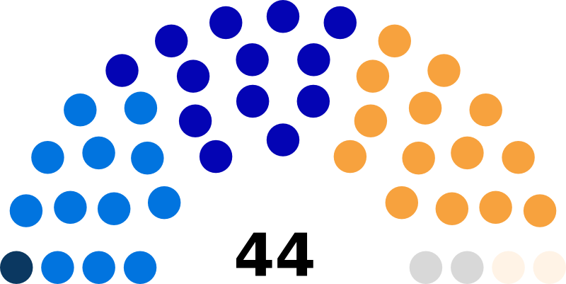 Seats diagramme of Swiss Council of States (1866)